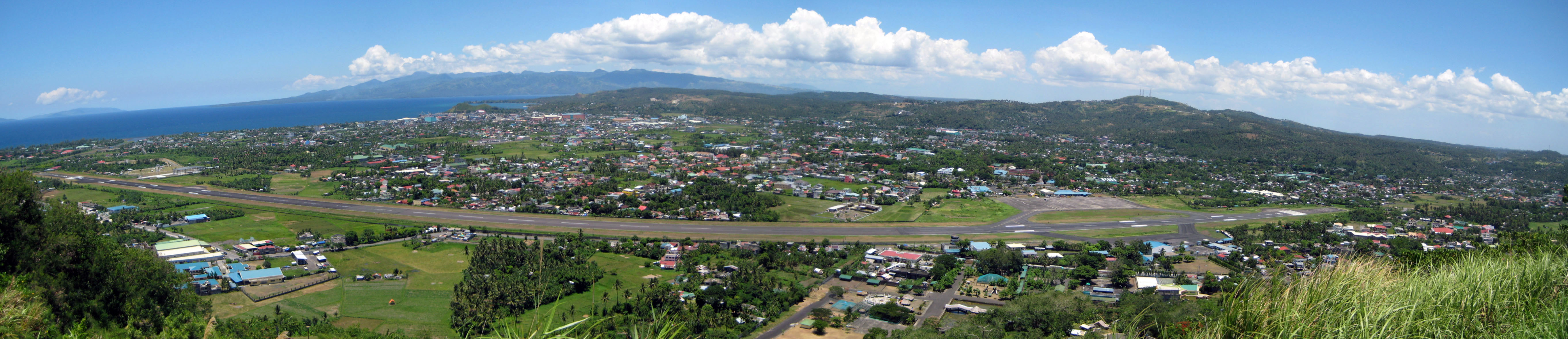 The runway of Legazpi Airport and the city of Legazpi as seen from Ligñon Hill, Legazpi City, Albay. The terminal building is the blue building that can be seen near the right side of the runway.